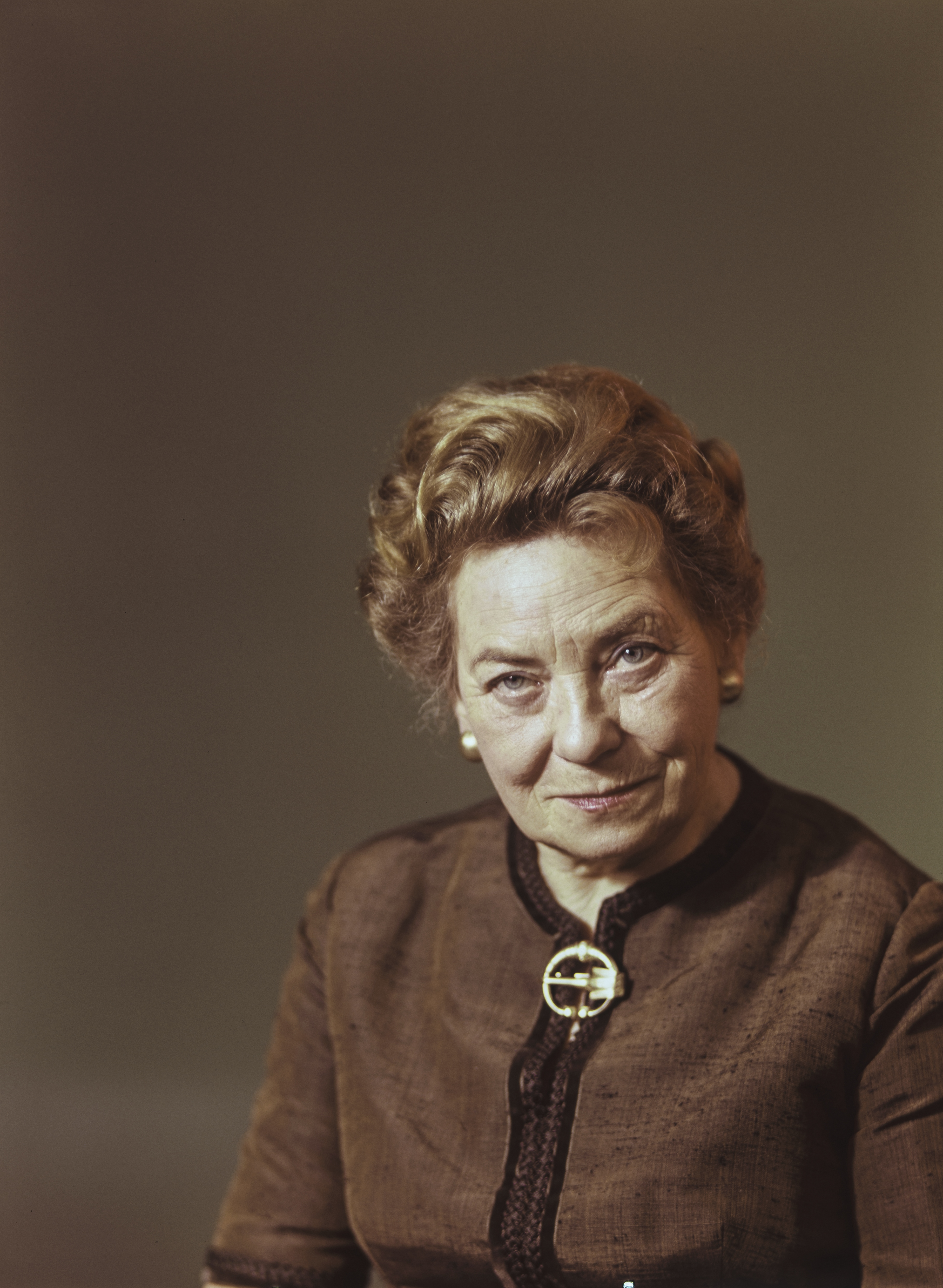 Photograph of the Austrian politician Dr. Hertha Firnberg (1909–1994).